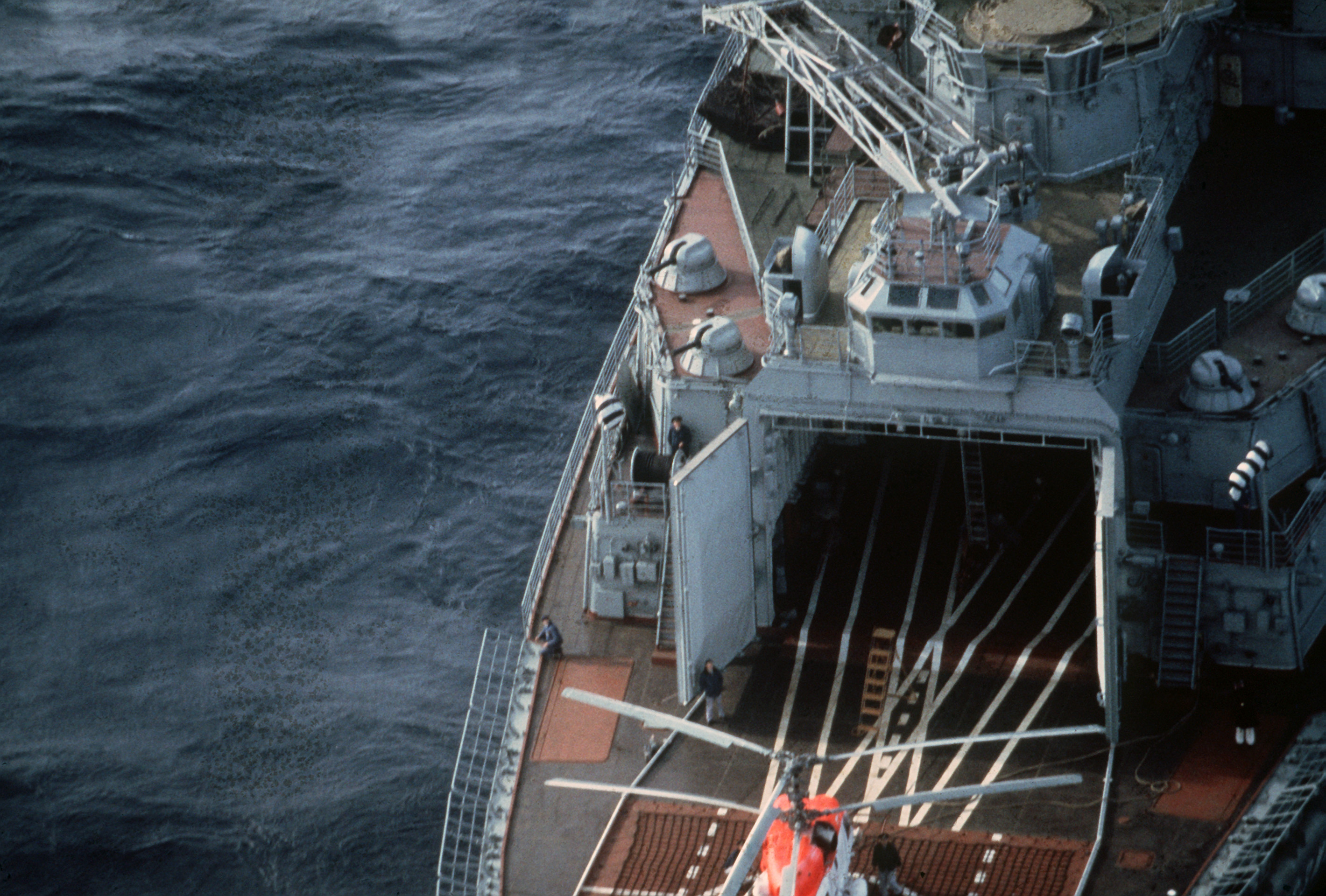 A view of the stern of the Soviet replenishment oiler BEREZINA. The hangar doors are open and a Ka-25 Hormone C helicopter is on the landing deck.